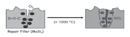 اصلاح خود به خودی ترک ها در روکش های محافظ در برابر اکسایش SIC/MOSI2 روی سرامیک های SIC